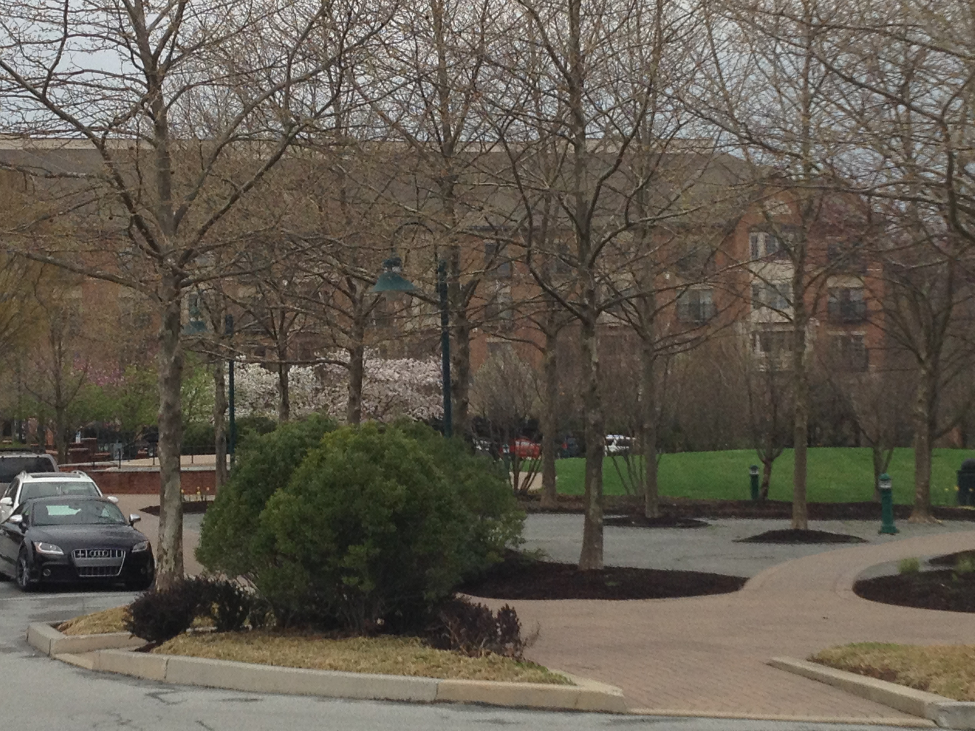 my camera